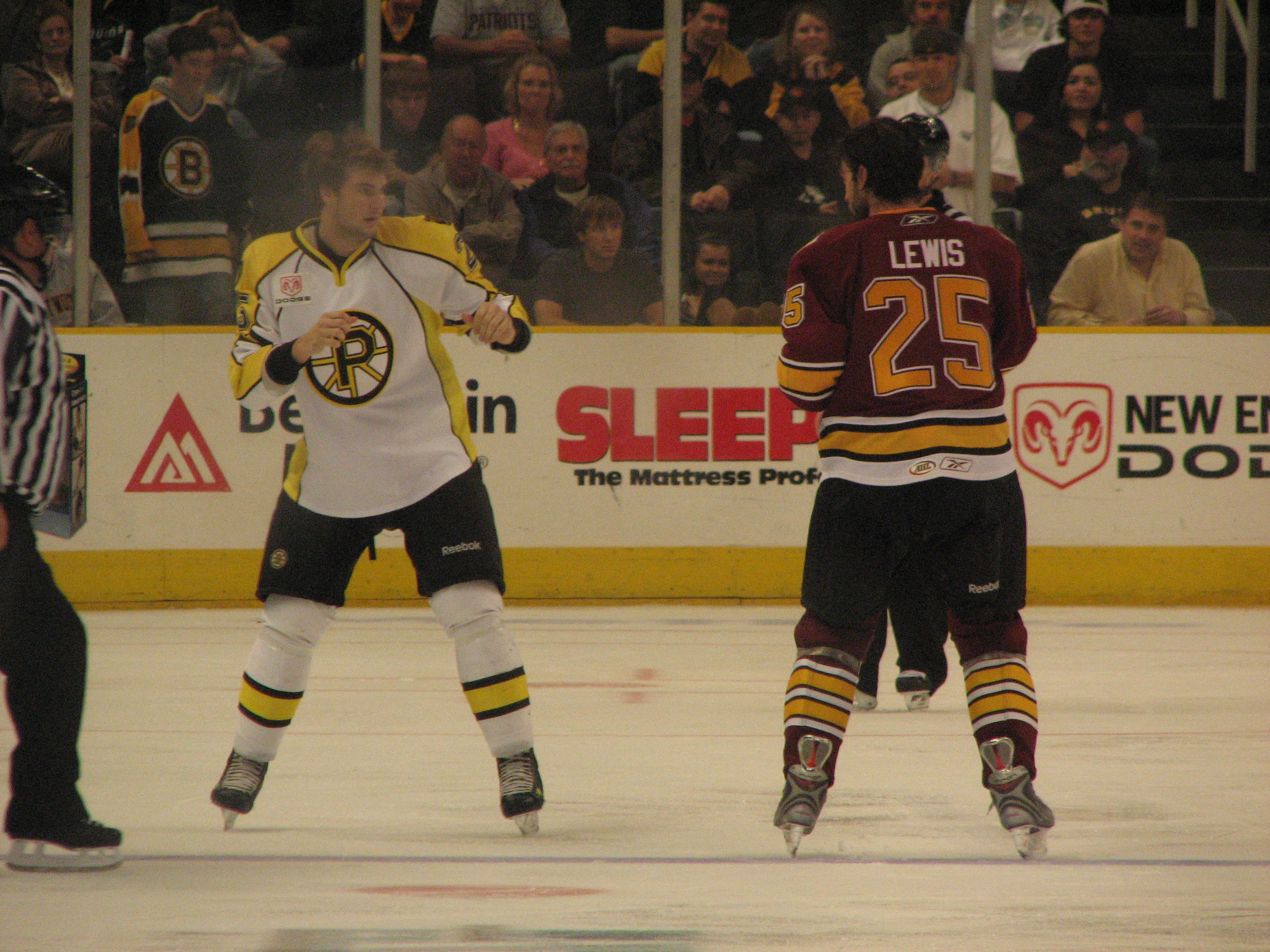 Jordan Knackstedt (l) and Grant Lewis start a fight.